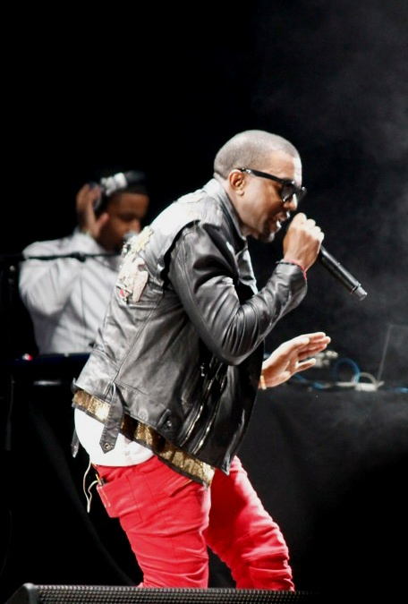 Kanye West performing at Lollapalooza on April 3, 2011 in Santiago, Chile.